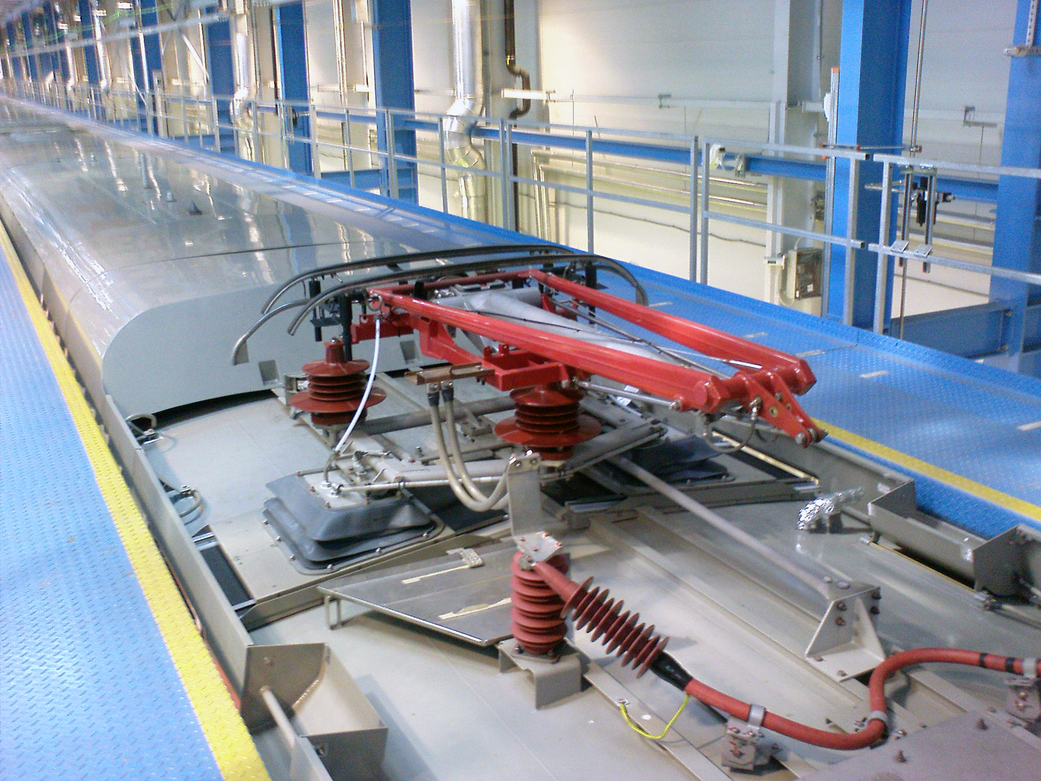 "Allegro" pantograph